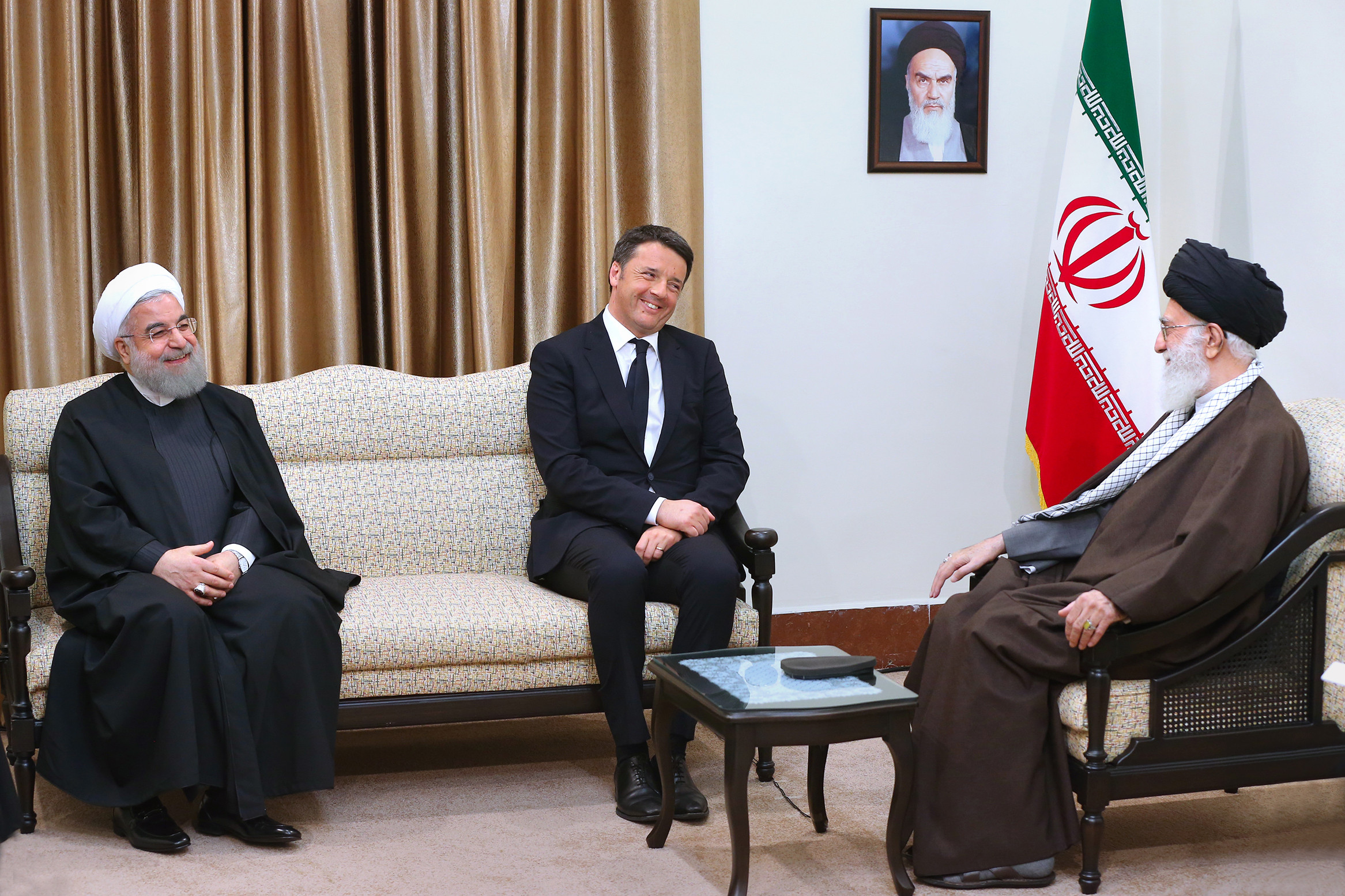 Matteo Renzi, the Prime Minister of Italy and his entourage met with Ali Khamenei, the Supreme Leader of Iran.